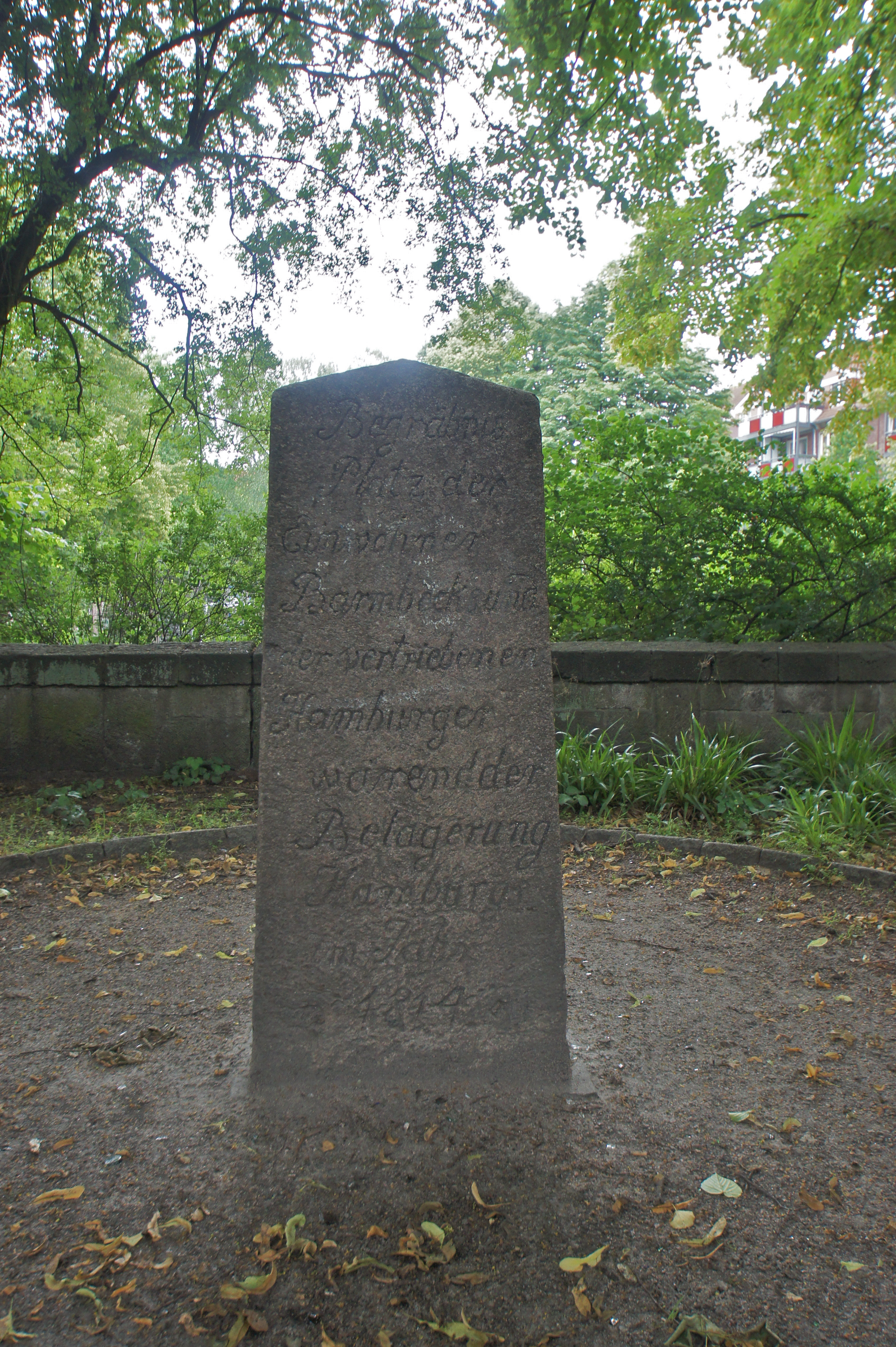 Hamburg (Barmbek-Süd), Germany: Monument for the victims of the siege of Hamburg during de Napoleonic wars